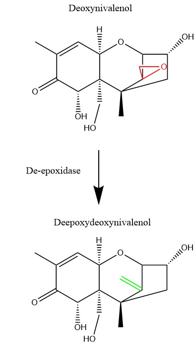 Conversion of DON to DOM-1 be de-epoxidase.